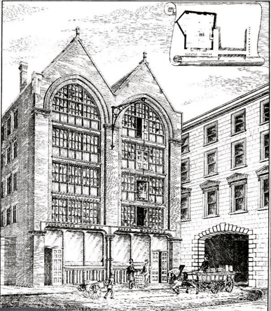 Warehouse, Ludgate Hill by Charles Bell, 1878.